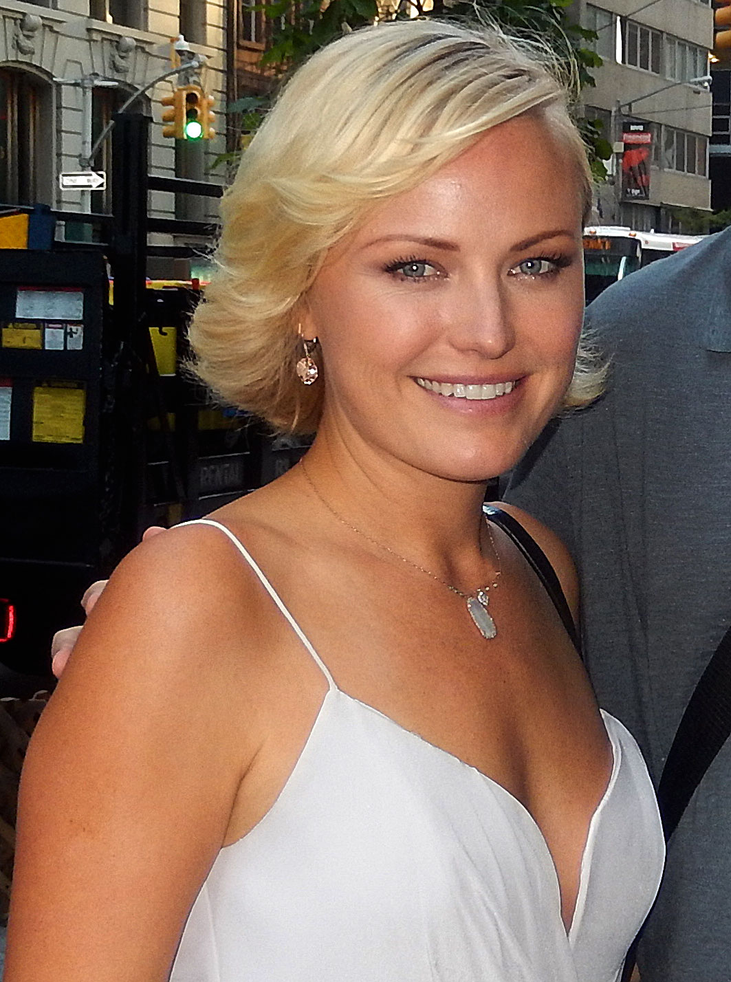 Malin Åkerman in July 2015